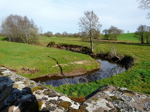 Hether Burn, near to Kirklinton, Cumbria, Great Britain. View upstream from Burnside Bridge.